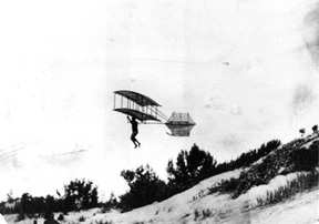 Octave Chanute's two-surface glider photographed in-flight on September 11, 1896, near Dune Park, IN. The pilot may be Augustus Moore Herring or William Avery.